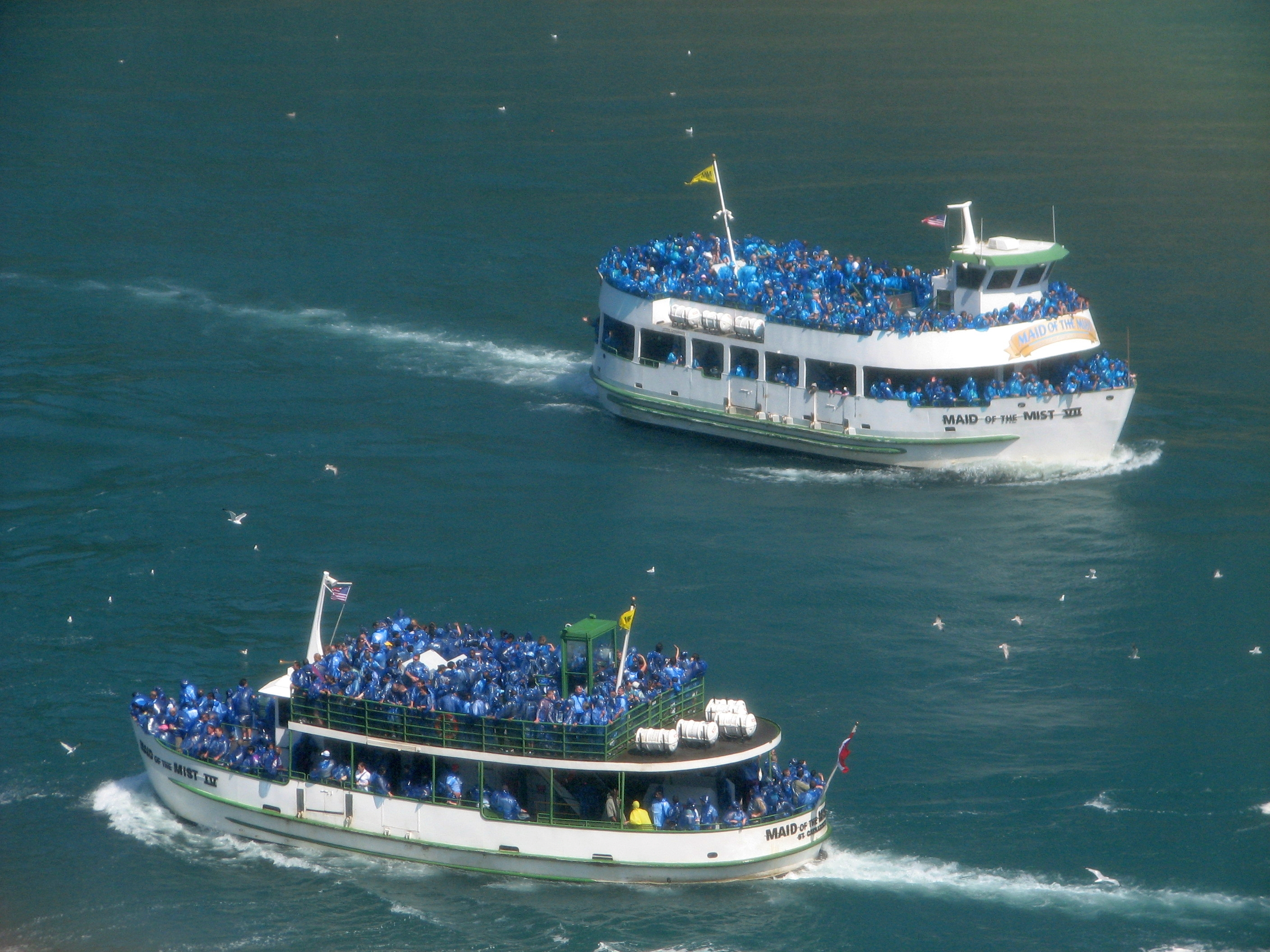 Maid of the Mist IV and VII carrying tourists at Niagra Falls, as viewed from the Canadian side of the falls in the city of Niagara Falls, Ontario.